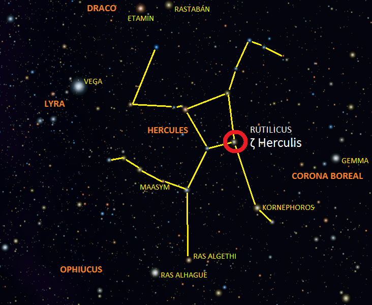 Zeta Herculis at Hercules constellation map.